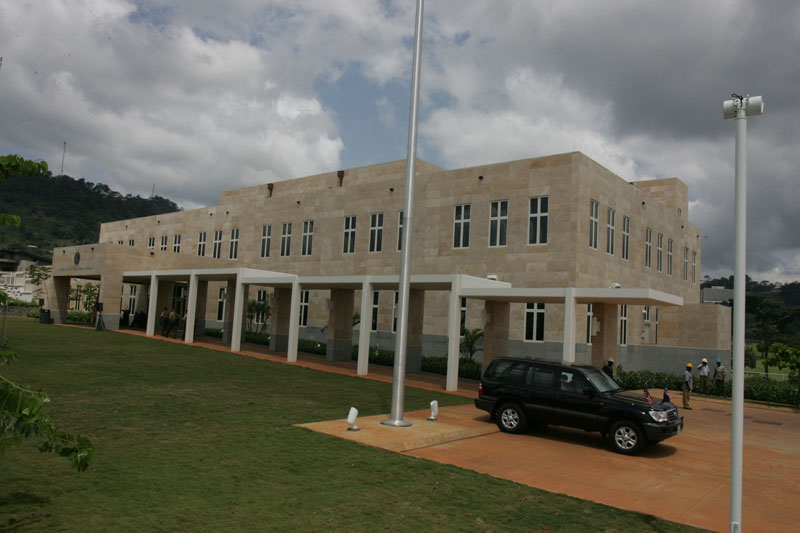 USA embassy at Yaoundé, Cameroon